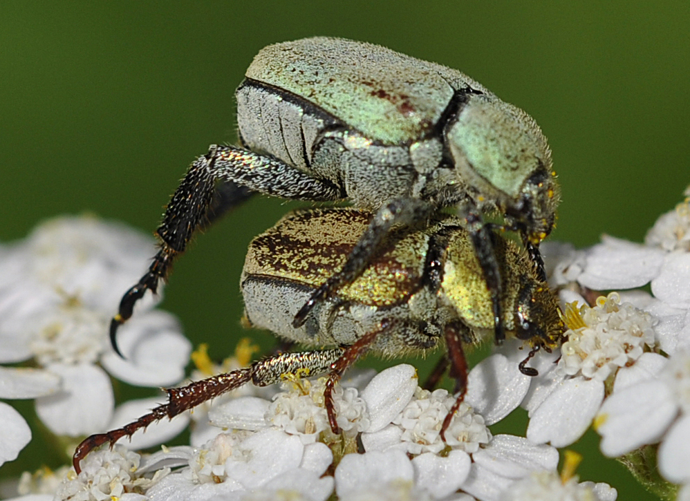 Hoplia argentea (Poda, 1761). Germany: S Bayern, Landkreis Bad Tölz, Walchensee, near Lobisau, 830 m.